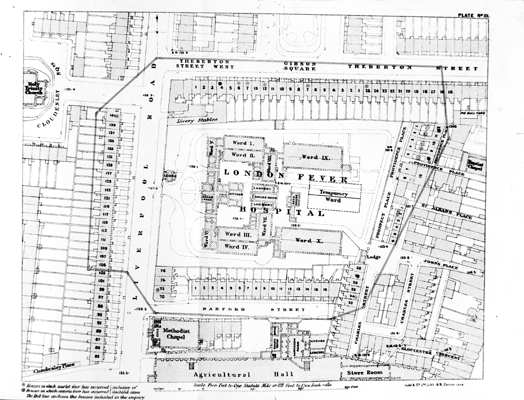 Plan of London Fever Hospital, North London Wellcome Images